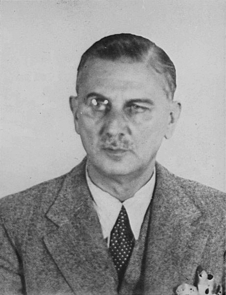 The British Captain Sigismund Payne Best, with monocle, who was abducted by a German raid-squad during the Venlo Incident that took place on November 9, 1939.